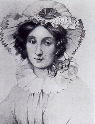 Fanny Targioni Tozzetti (1801-1889), the only real woman represented in the poetry of Giacomo Leopardi. She's also well known with the literary calque of Aspasia, in three poems of Giacomo Leopardi